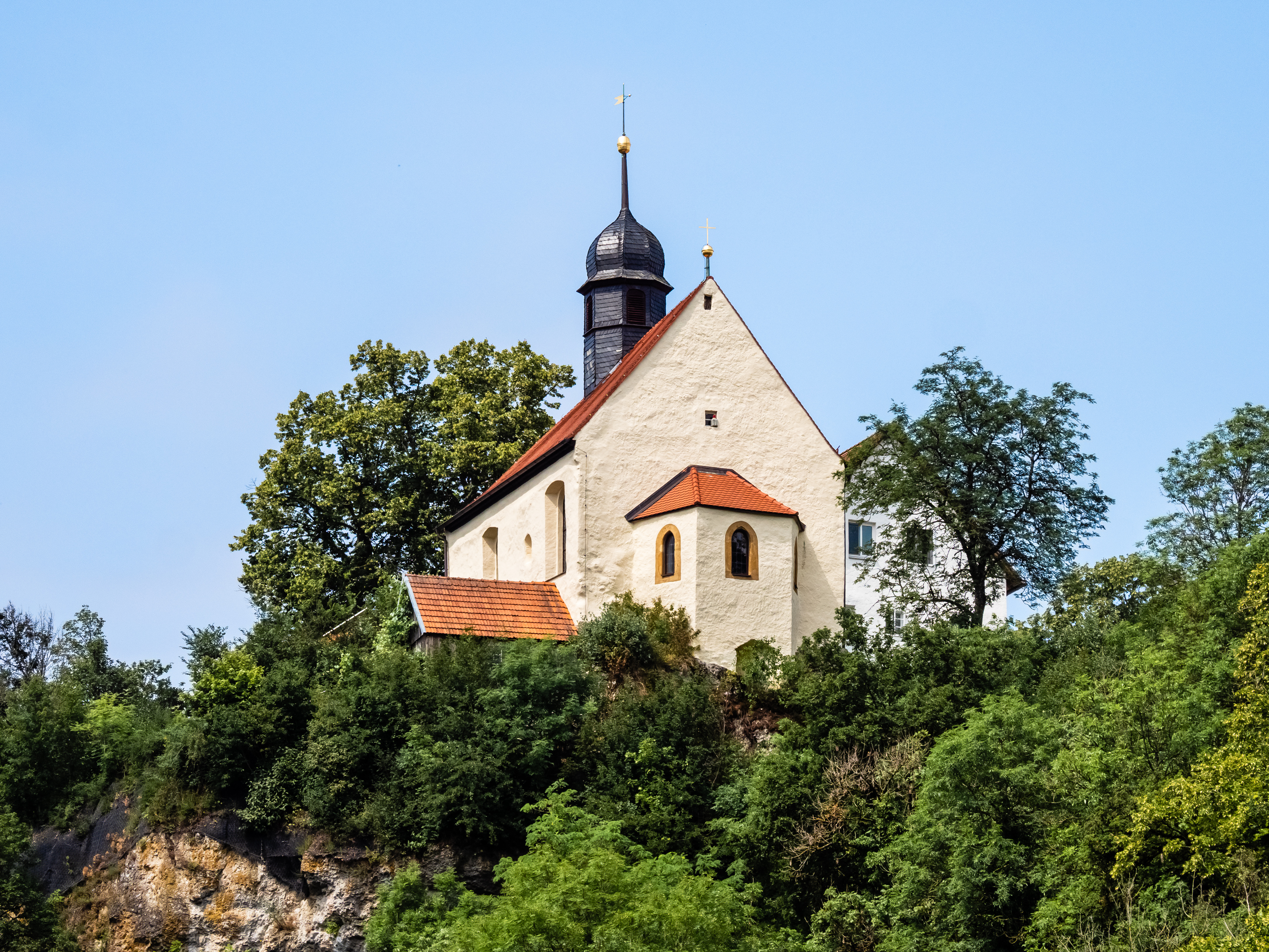 Klausstein Chapel in the Ailsbach Valley in Franconian Switzerland